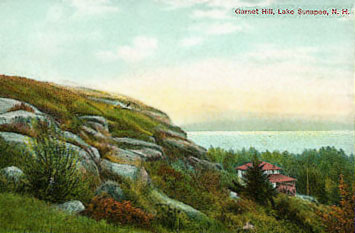 Scan of antique postcard shows typical glacial landscape in northern NH.